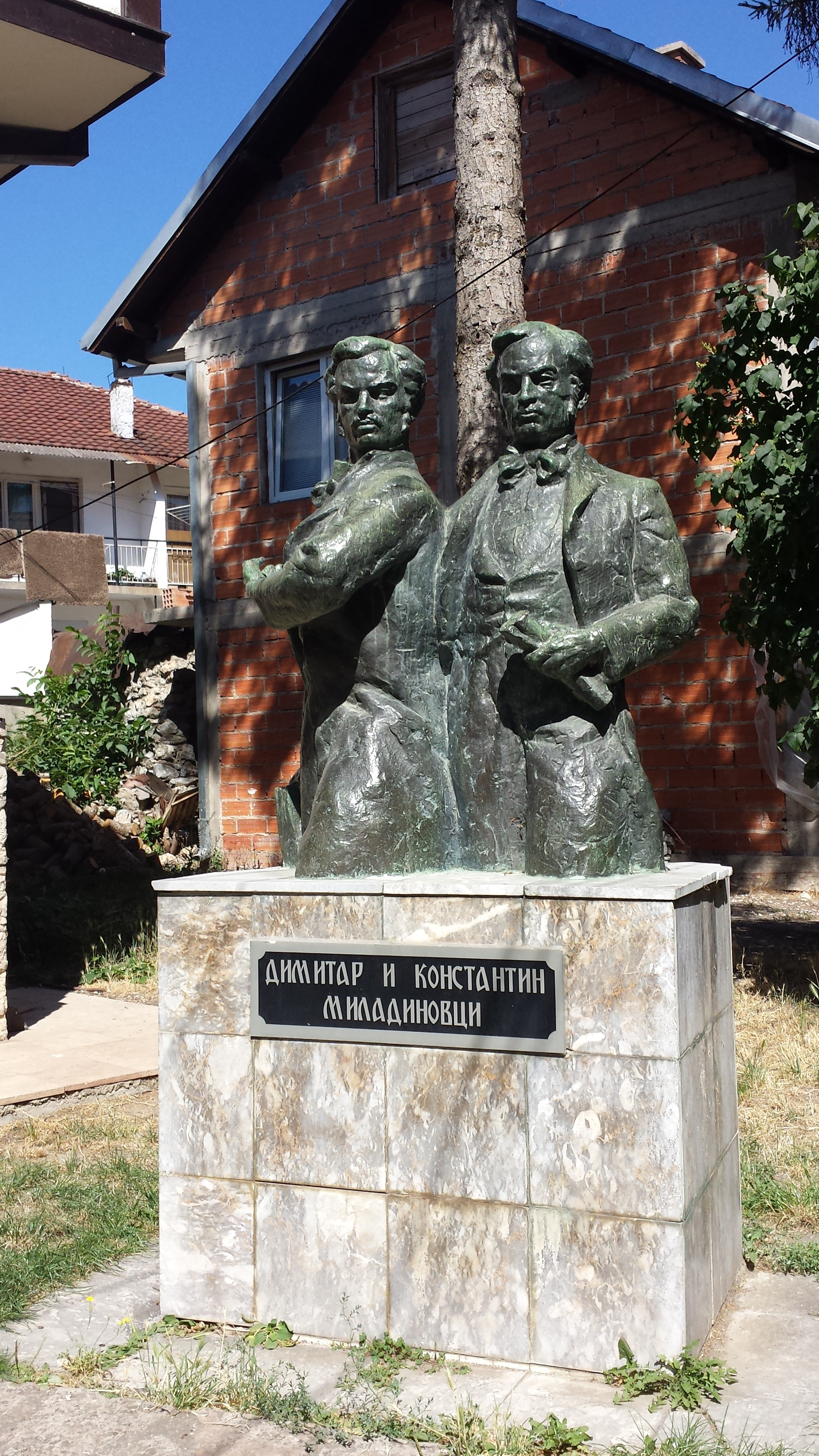 Monument to the Miladinov Brothers erected next to the Miladinov Brothers Memorial Struga